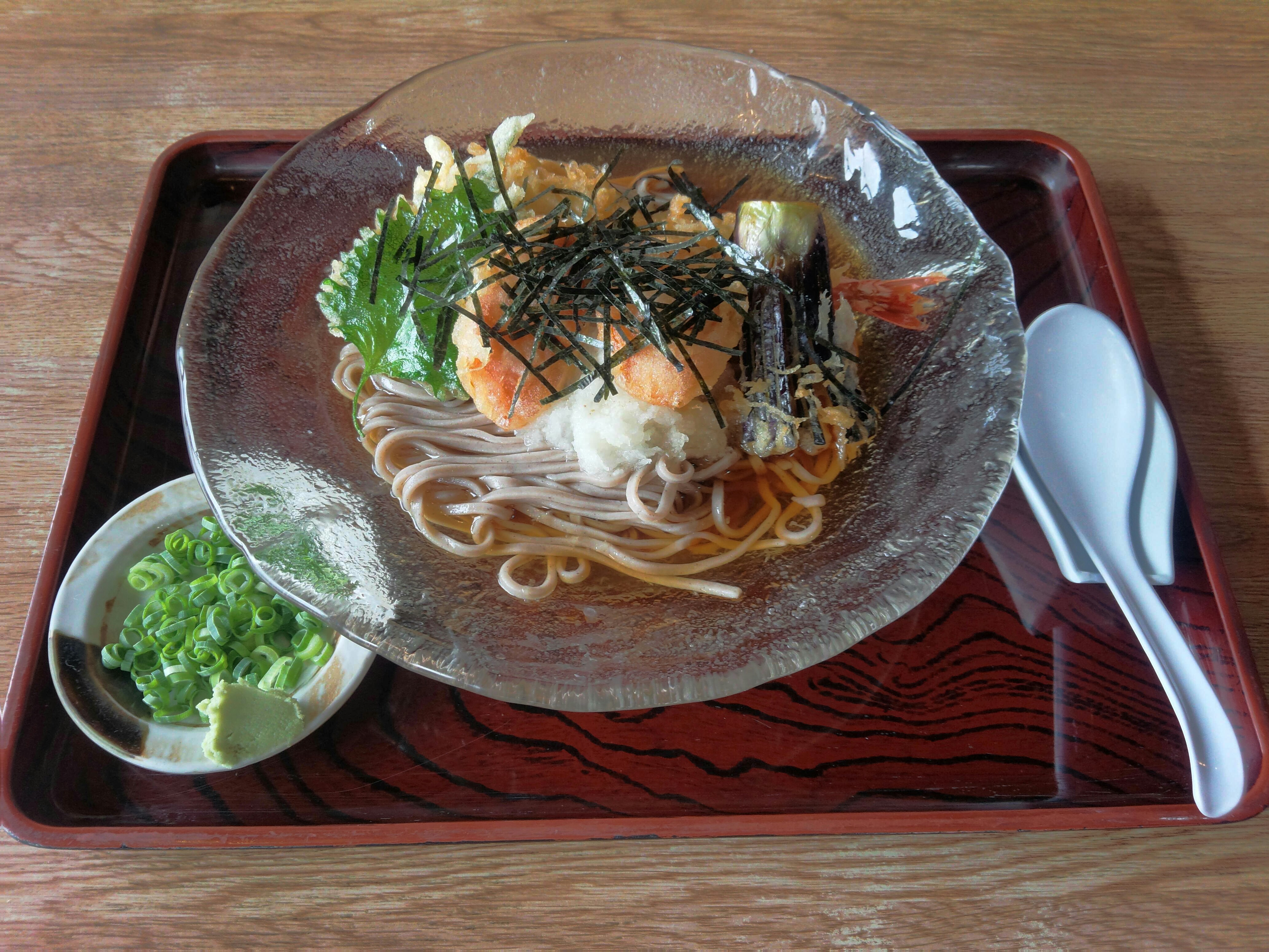 Ebioroshi soba (海老おろし蕎麦), in Toyokawa, Aichi